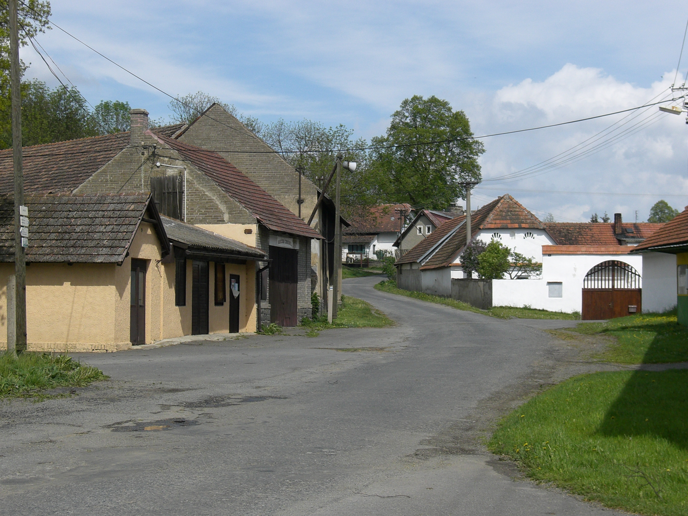 Myslín village in Písek district, Czech Republic.